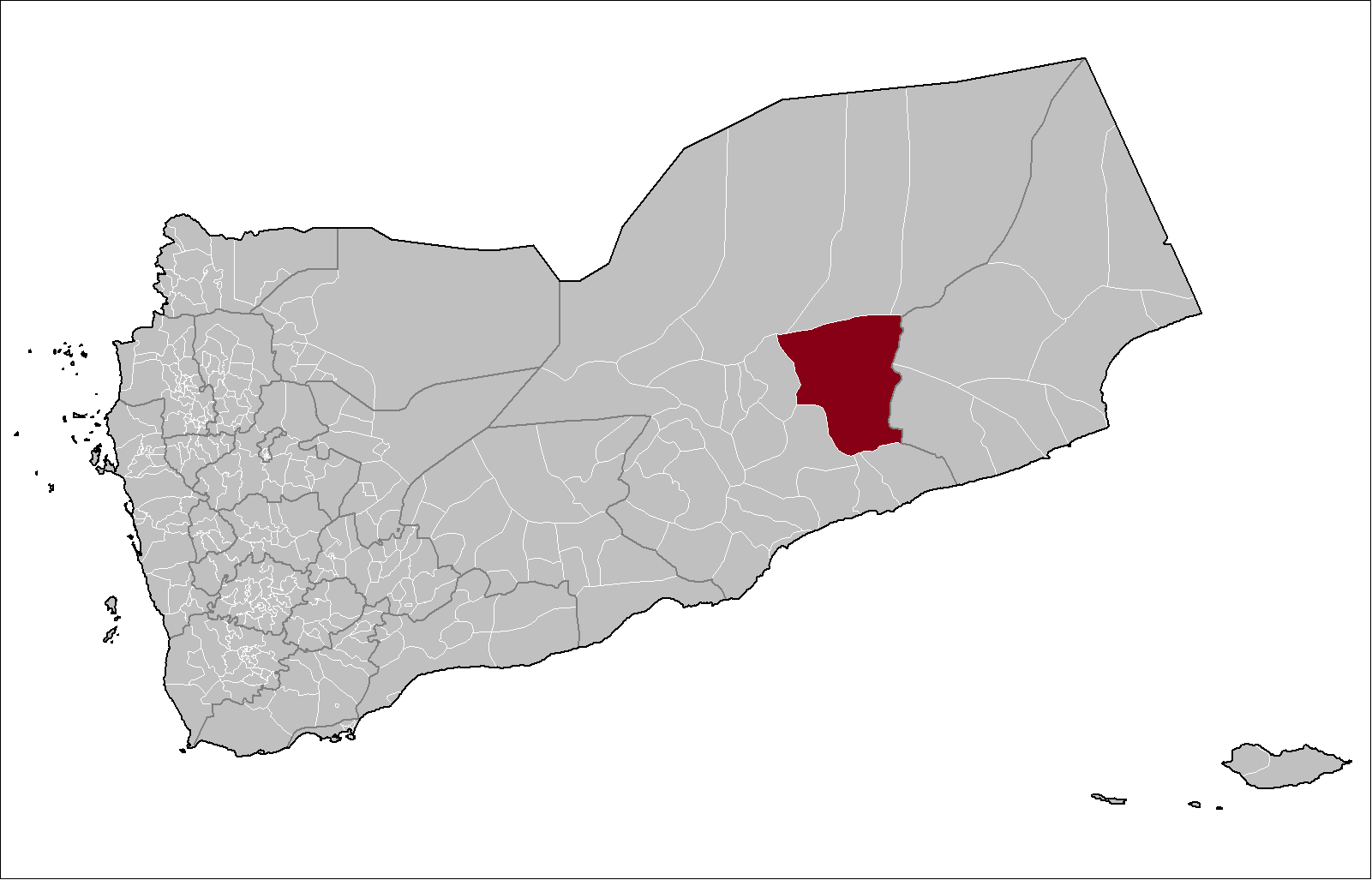 District locator of Al Sawm District (Soum District) in Hadhramaut Governorate, Yemen.